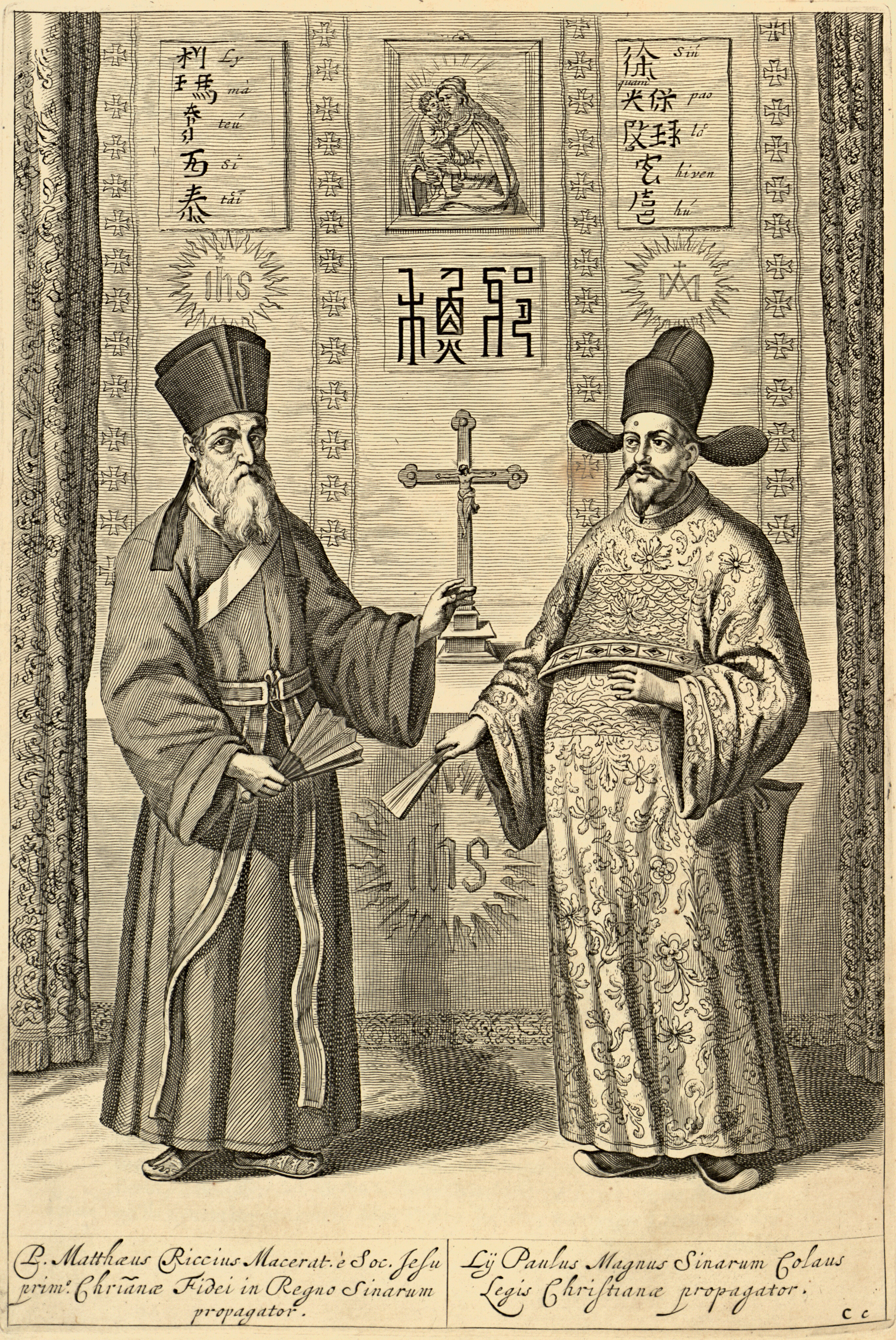 Matteo Ricci and Paul Xu Guangqi From La Chine d'Athanase Kirchere de la Compagnie de Jesus: illustre de plusieurs monuments tant sacres que profanes, Amsterdam, 1670. Plate facing p. 201. (Translation of: Athanasii Kircheri e Soc. Jesu China monumentis ... Amstelodami, 1667). Digital Scan from Villanova University, Falvey Memorial Library, Digital Library.